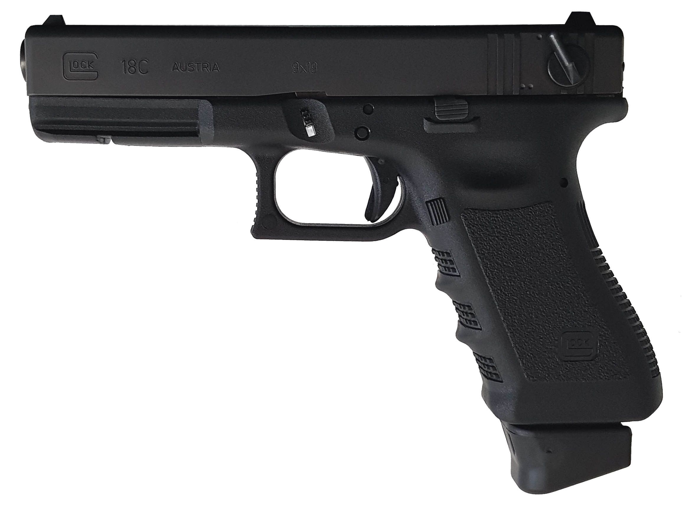 Glock 18C (compensated) in the third generation, unloaded and equipped with 19-rounds magazine, fire selector set to single fire